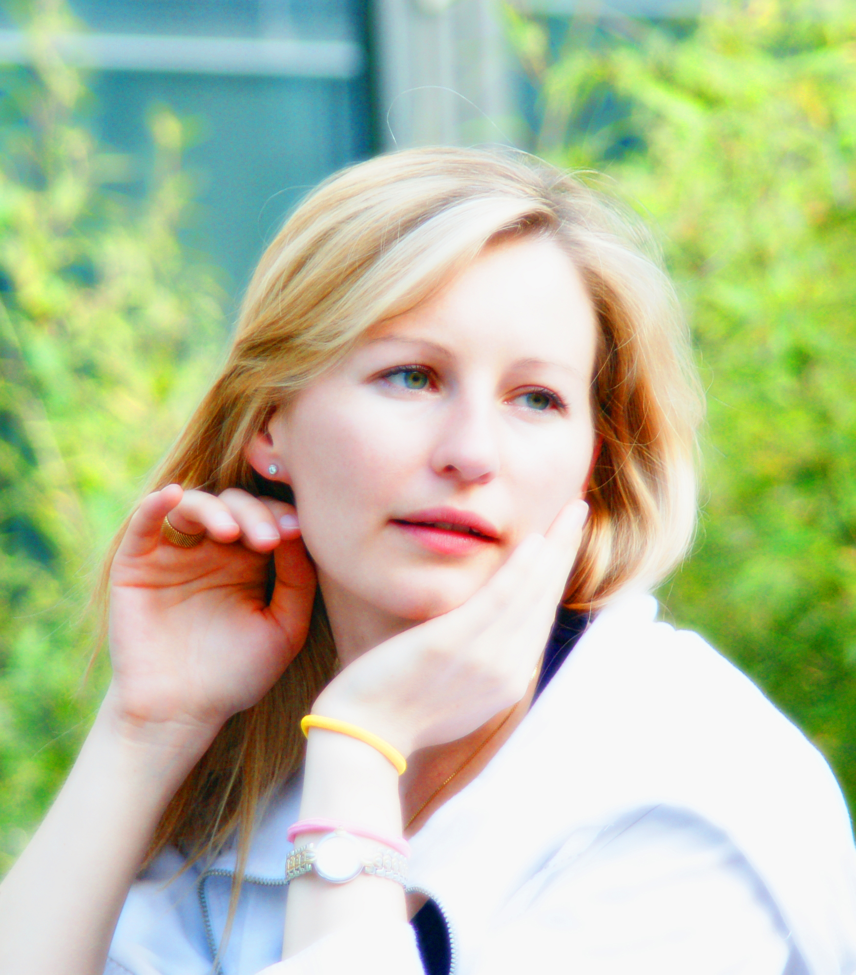 Blonde girl from Poland